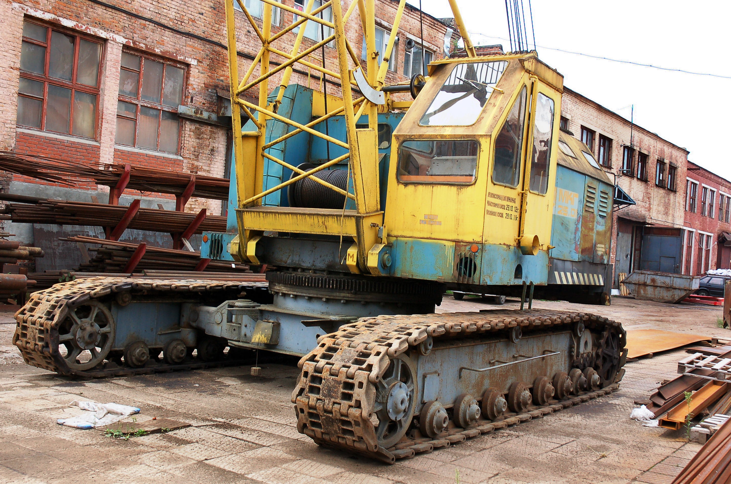 Mobile crane “MKG 25.01” in Moscow, Russia.